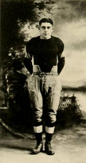 Earl Krieger picture in Athena 1920, Ohio University yearbook